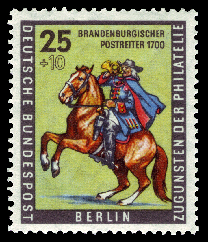 international stamp day Graphics by Helmcke Ausgabepreis: 25+10 Pfennig First Day of Issue / Erstausgabetag: 26. Oktober 1956 Michel-Katalog-Nr: 158 (Berlin)